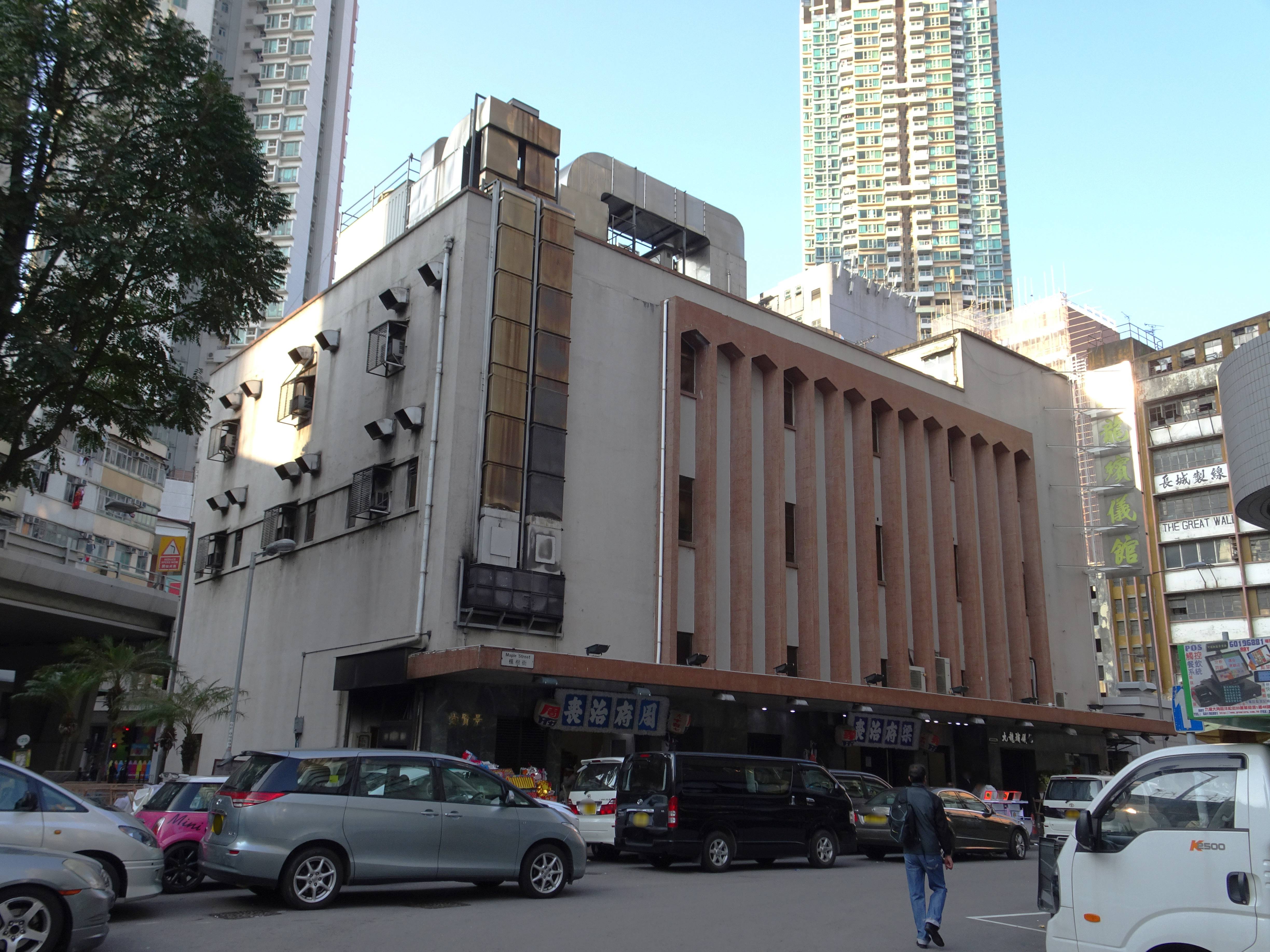 Kowloon Funeral Parlour in Tai Kok Tsui, Hong Kong.